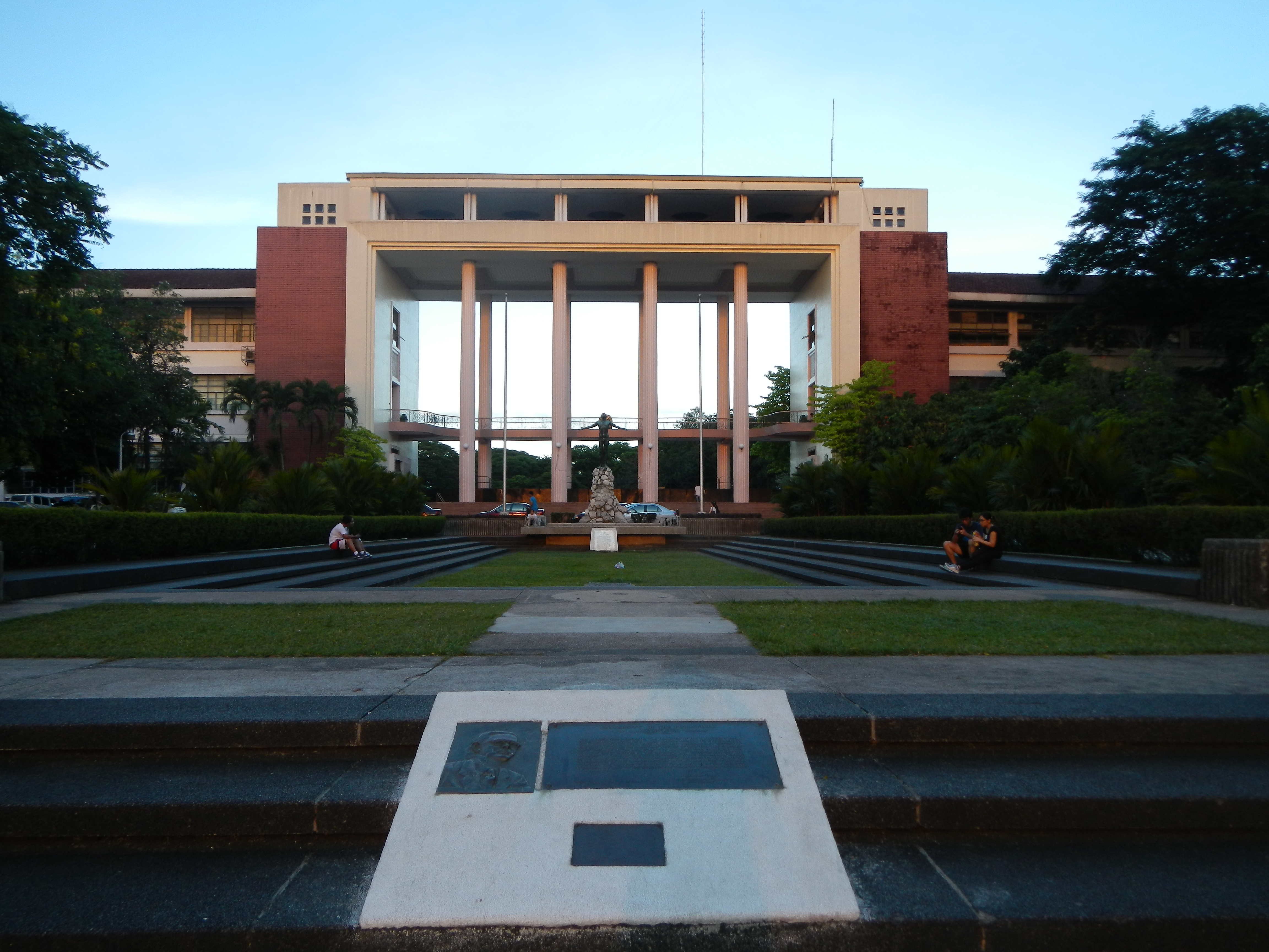 The Oblation and Academic Oval - Oblation (University of the Philippines) Quezon Hall - [1]The Oblation (Filipino: Pahinungod, Oblasyon) is a concrete statue by Filipino artist Guillermo E. Tolentino which serves as the iconic symbol of the University of the Philippines. It depicts a man facing upward with arms outstretched, symbolizing selfless offering of oneself to his country. Oblation Run[2] University of the Philippines Diliman[3]The U.P. Diliman campus is connected to Commonwealth Avenue via the University Avenue. It stretches 800 meters where traffic enters the campus, or proceeds towards C.P. Garcia St., which connects Commonwealth Avenue to Katipunan Avenue. At the end of University Avenue, the Oblation Plaza of the Diliman campus faces the road. Behind it, the facade of Quezon Hall can be seen. The Gen. Antonio Luna Parade Grounds, or commonly known as the Sunken Garden, is a 5-hectare natural depression found on the eastern side of the campus and at the end of the Academic Oval circle. Sunken Garden is enclosed by the U.P. Diliman Main Library (also houses the School of Library and Information Studies), College of Social Sciences and Philosophy's Department of Psychology, College of Education, Student Activity Center/Vinzons Hall, College of Business Administration, School of Economics and College of Law. The Grounds was originally a property of the UP Reserved Officers' Training Corps when the campus was founded in 1949.